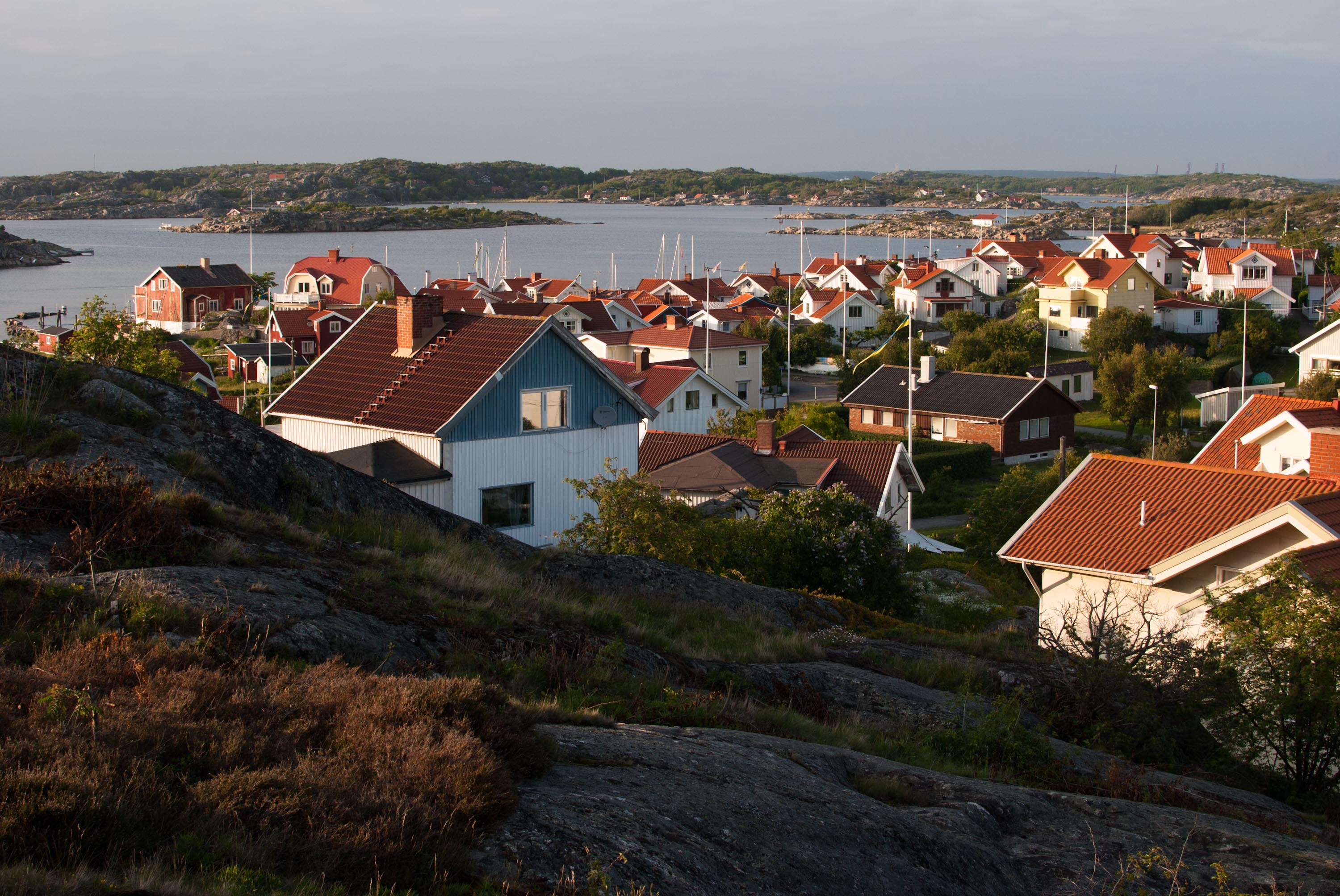 The island Styrsö near Gothenburg, Sweden.